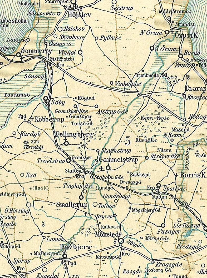 Map of Jordbro Å in the northwestern part of Viborg County in Denmark